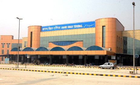 Anand Vihar Terminus in India